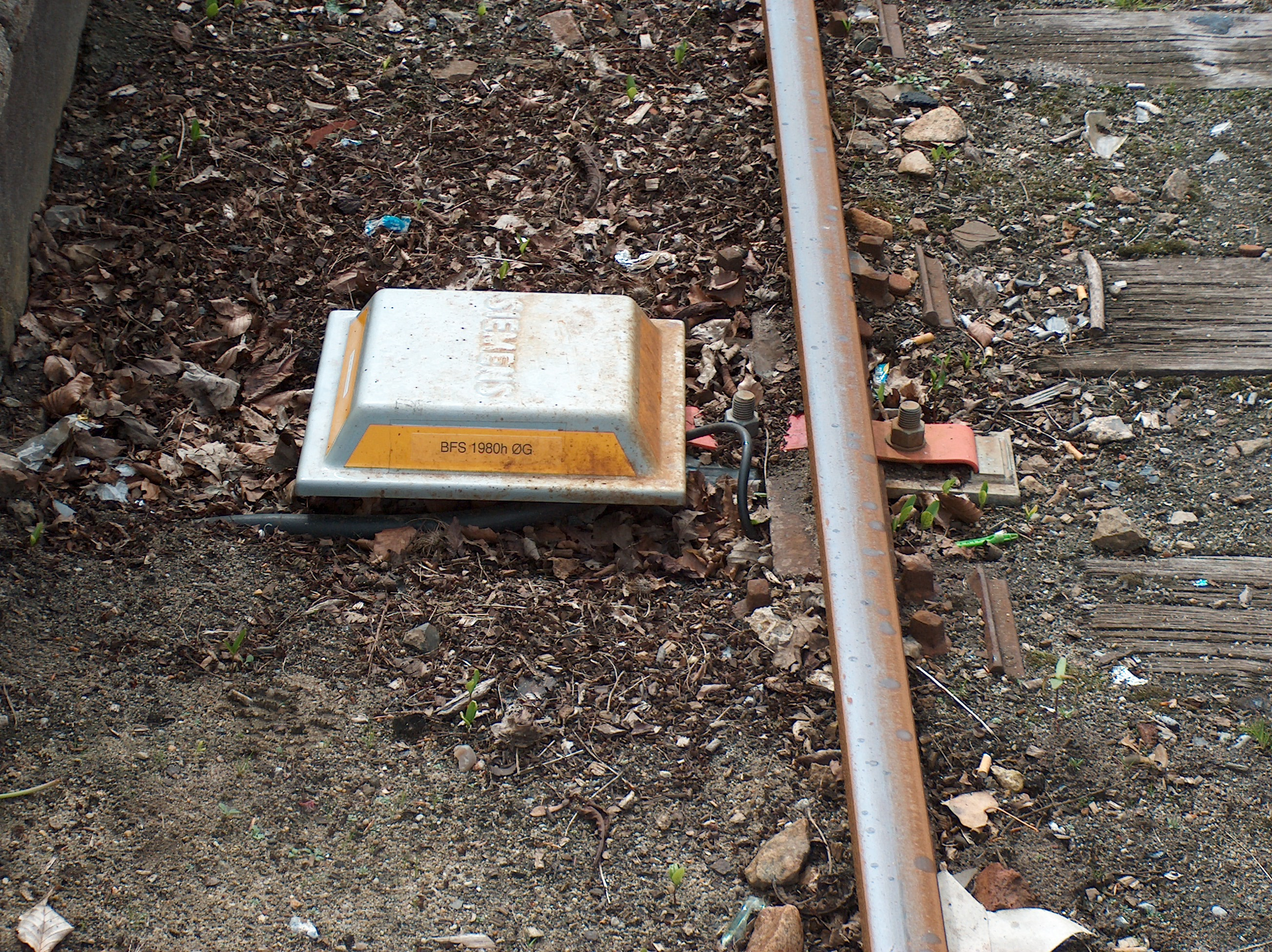 ZUB 123 - ATP balice - Ølgod Station; Ølgod, Denmark